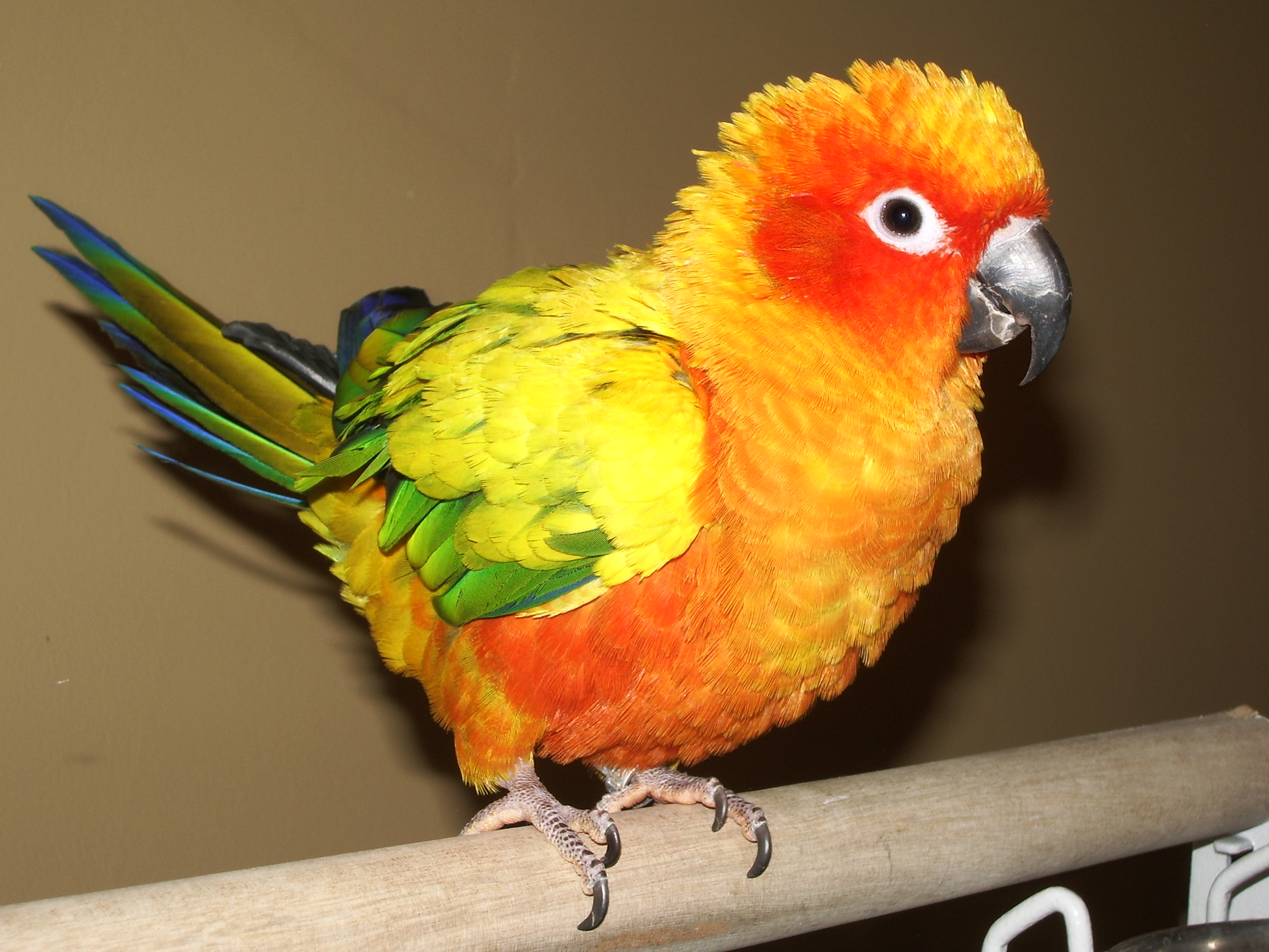 He loves it when you blow on his face and it makes him puff!